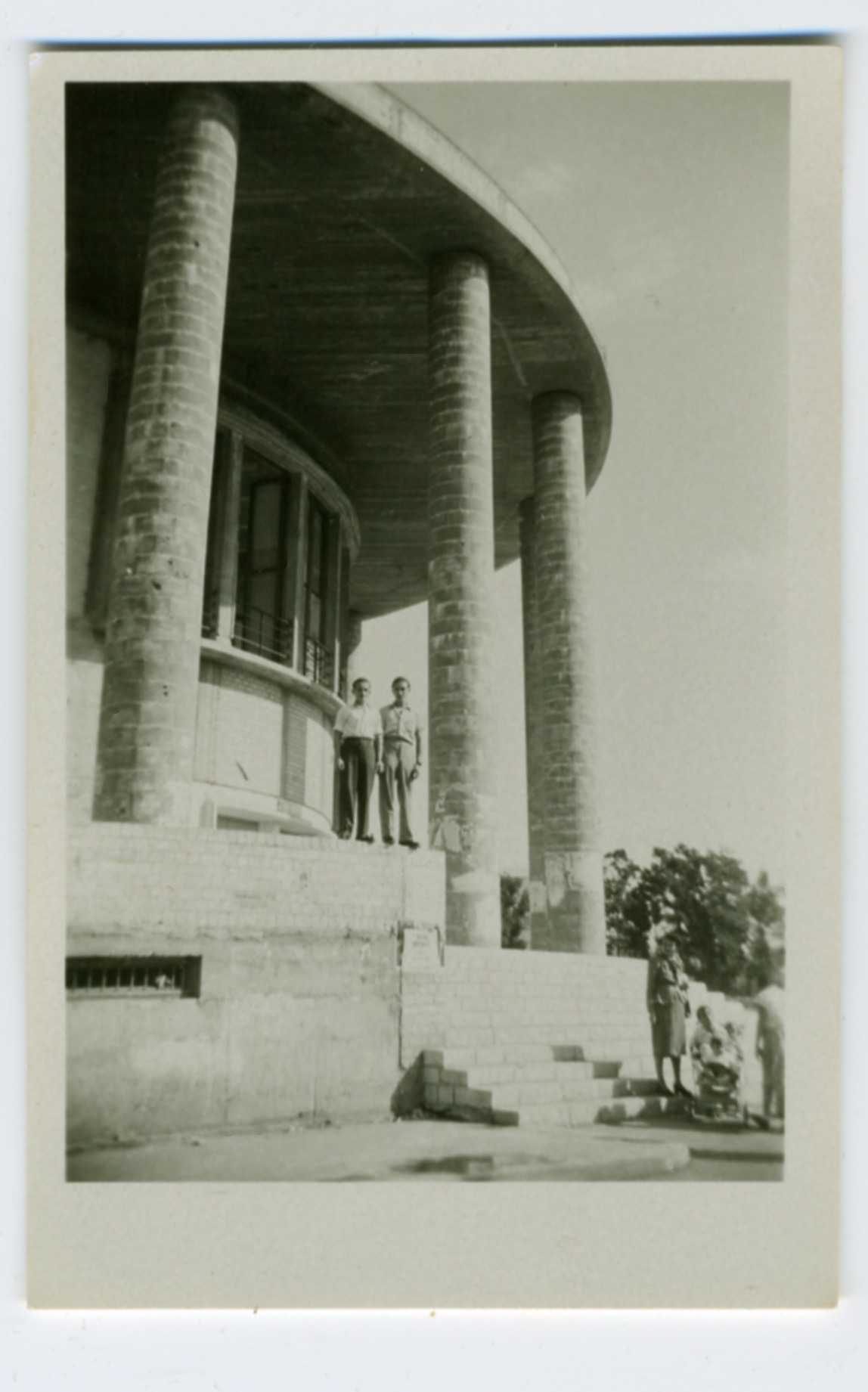 Habima Theater Building